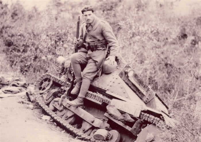 Greek soldier sitting on a captured Italian tankette CV-33, during the Battle of Elaia-Kalamas, Greco-Italian War, 1940